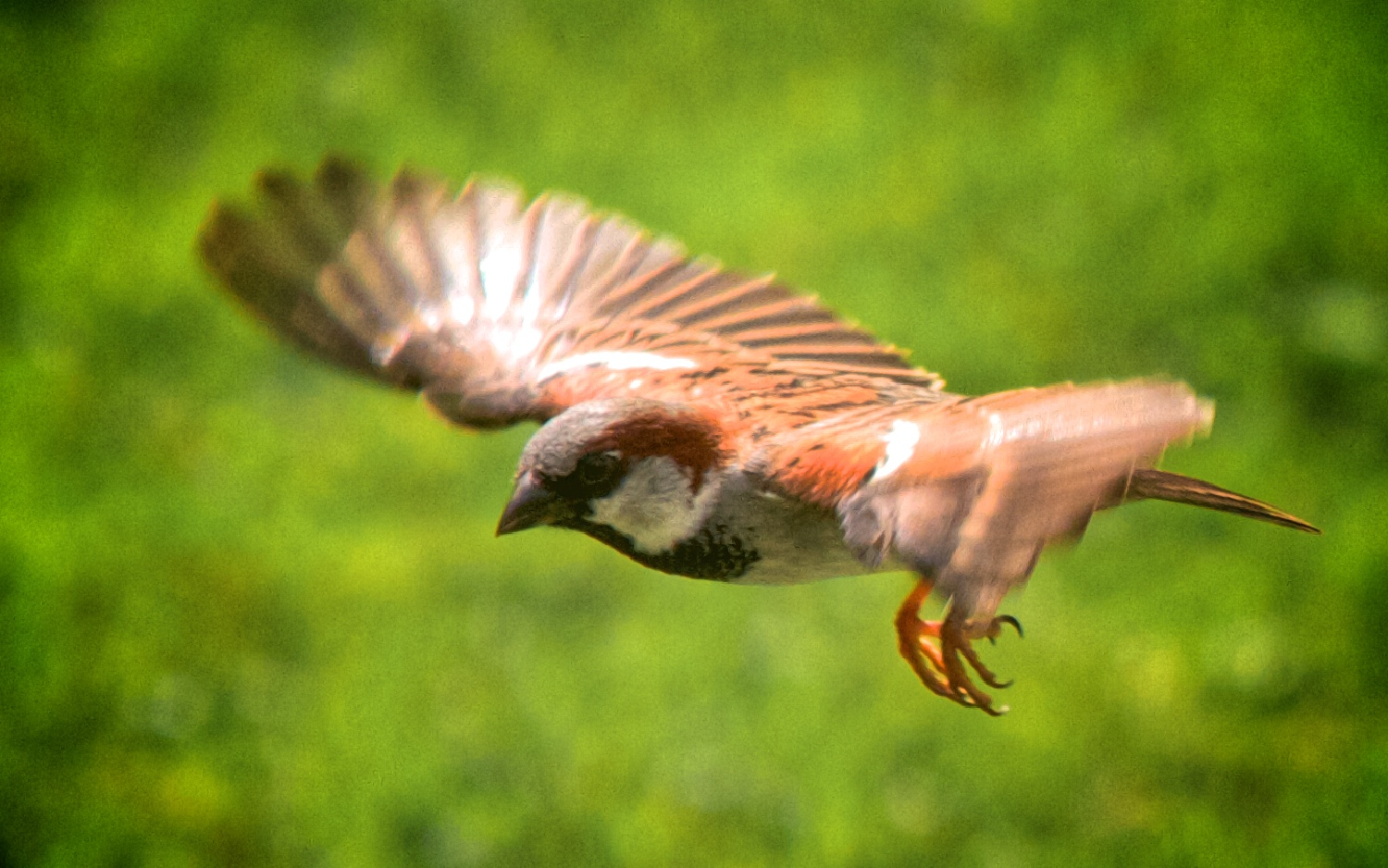 A male House Sparrow in flight